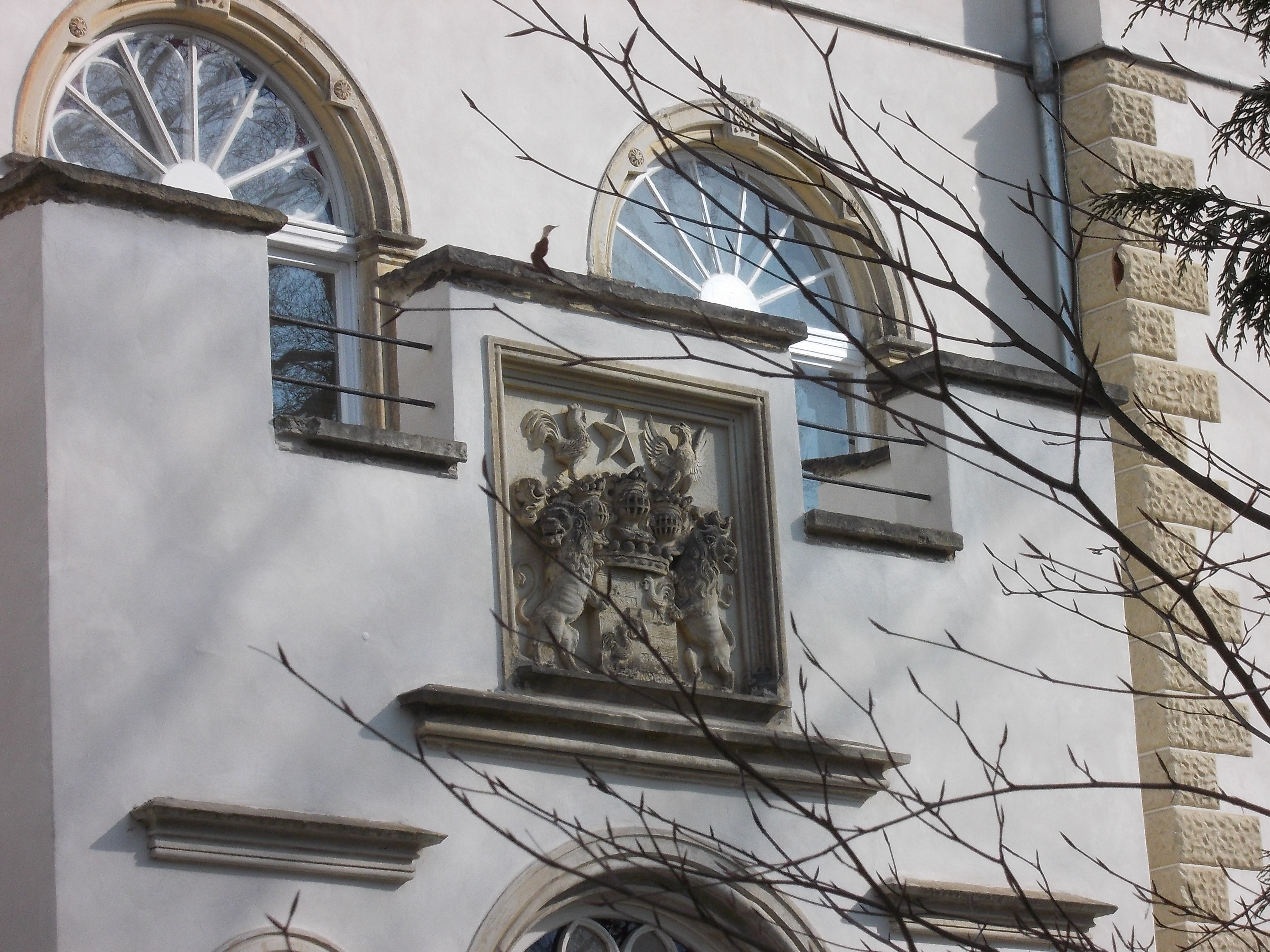 Coat of arms of the Speck von Sternburg family at Lützschena Castle (Leipzig, Saxony)